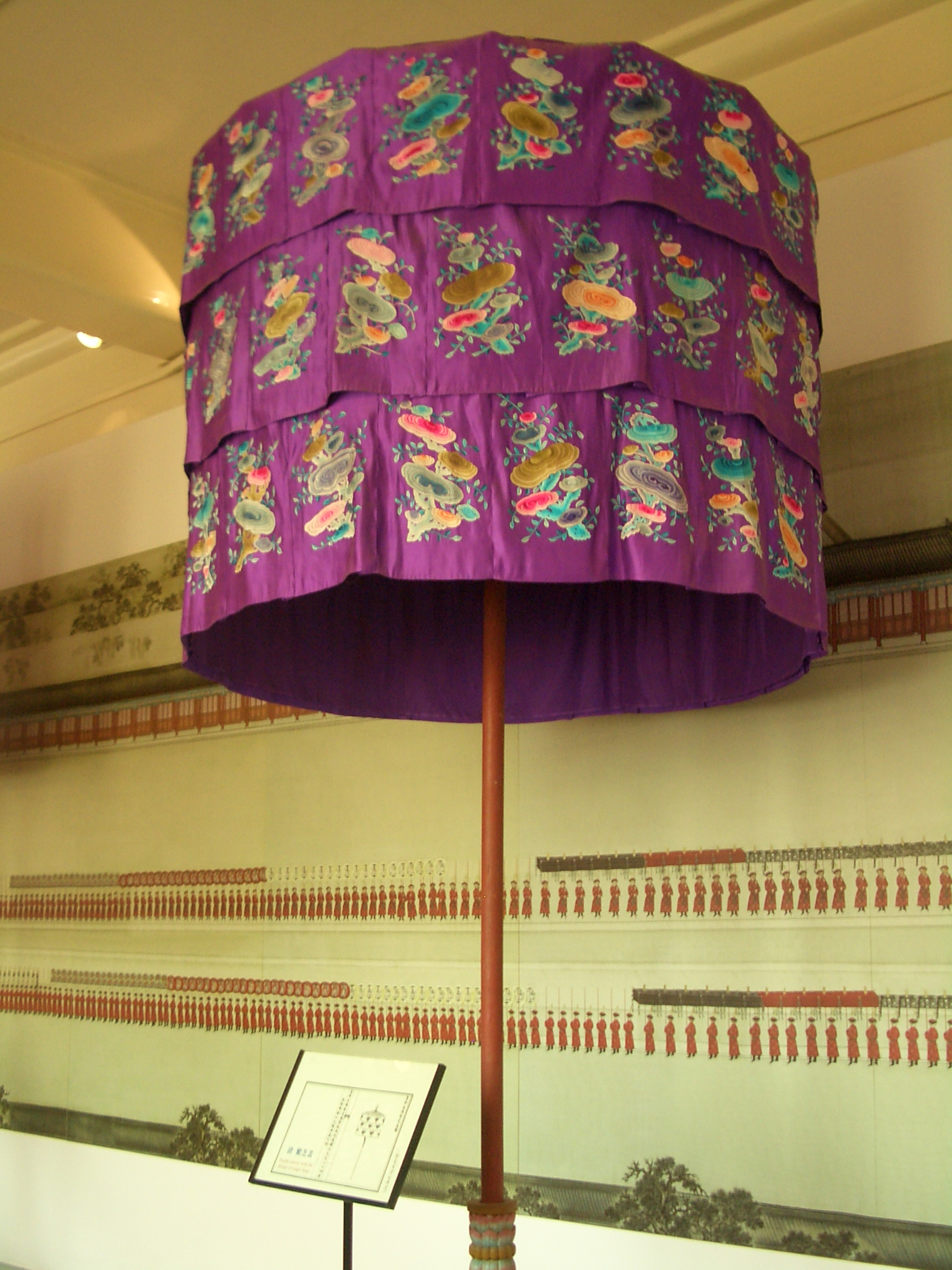 Qing dynasty purple canopy with a magic fungi design (according to the label), exhibited in one of the museum galleries in Beijing's Forbidden City